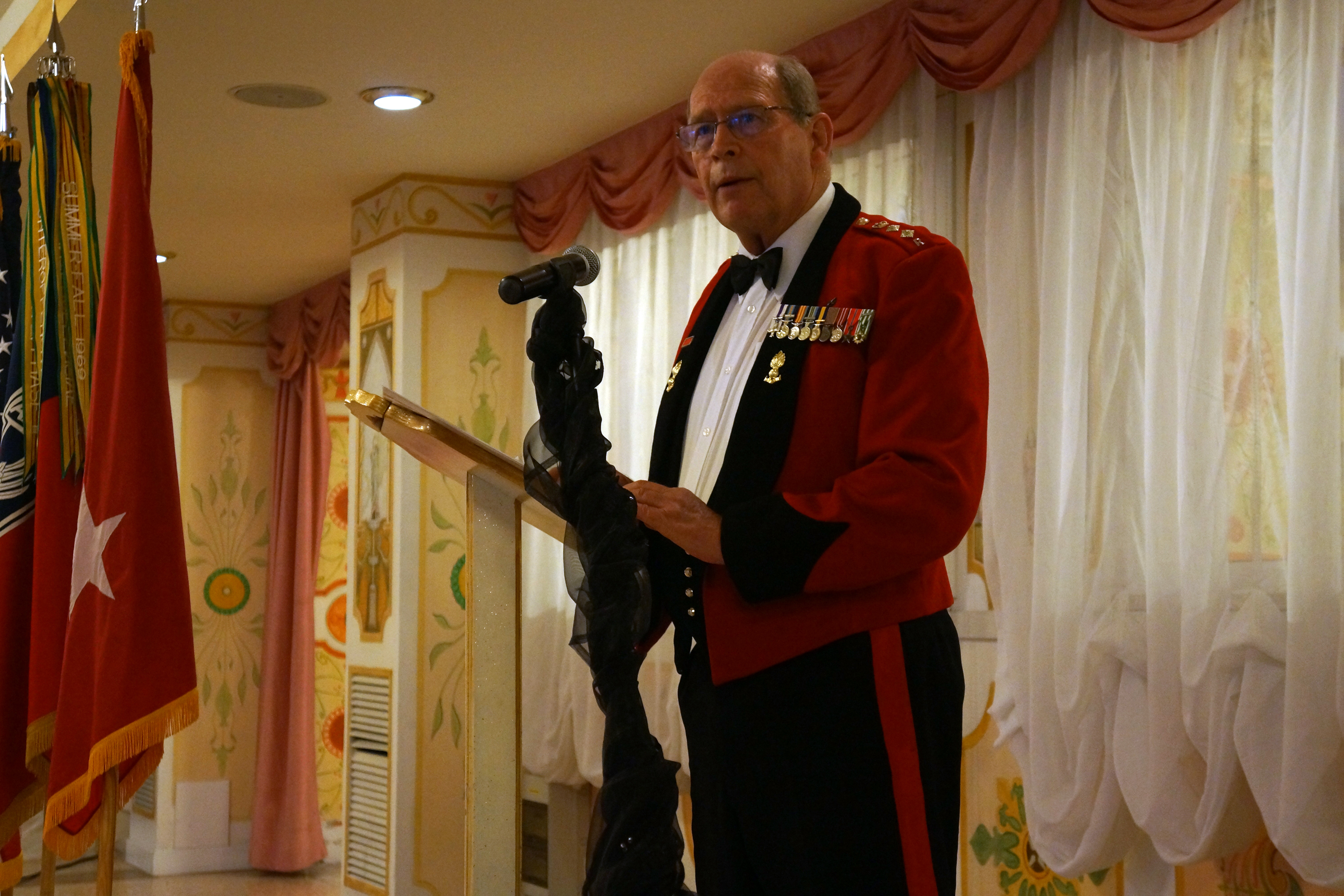 Australian Col. (retired) Sandy MacGregor talks about being a "tunnel rat" during a formal ball with Soldiers of 173rd Airborne Brigade Combat Team Aug. 1, 2013, Vicenza, Italy. MacGregor served in the Royal Australian Engineers deploying to Vietnam as a captain, commanding the 3rd Field Troop Engineers, September 1965-1966. (U.S. Army photo by Staff Sgt. Opal Vaughn)